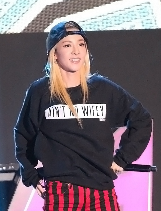 Sandara Park at the Samsung Passion Talk on September 24, 2013.